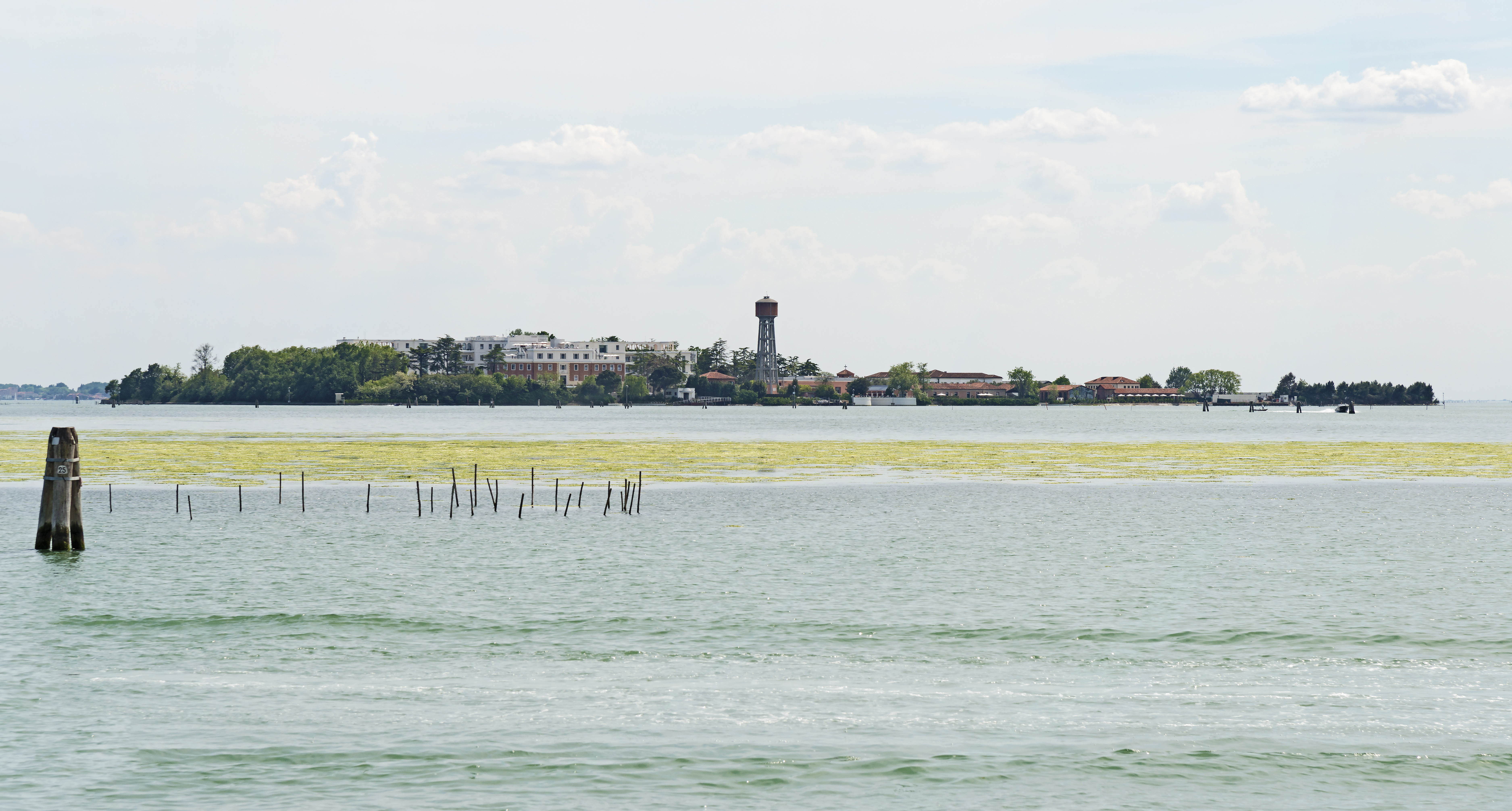 Sacca Sessola Venice lagoon - View from the Giudecca